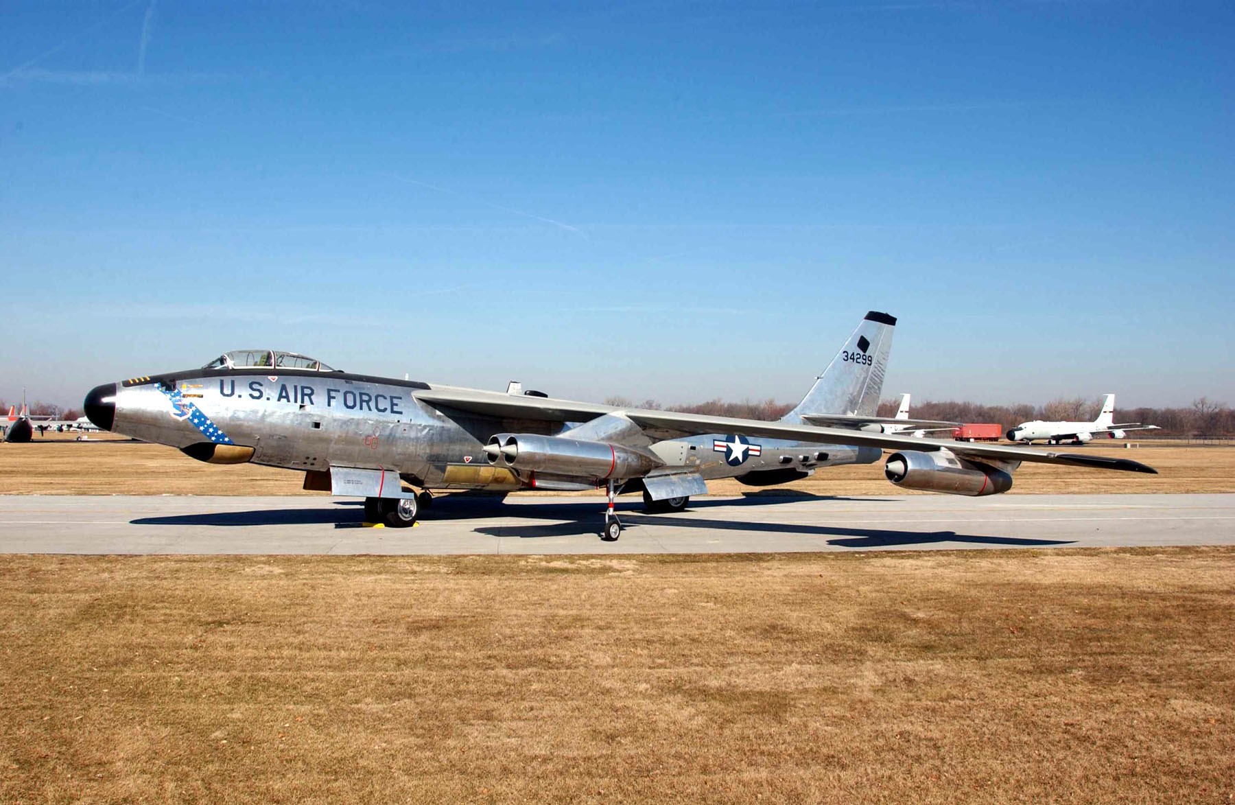 Boeing RB-47H-1-BW Stratojet 53-4299. After being retired from active duty, this aircraft was on display at the former Schilling Air Force Base, near Salina, Kansas for many years. In 1988 it was moved to the National Museum of the United States Air Force and underwent restoration and put on display at the museum.